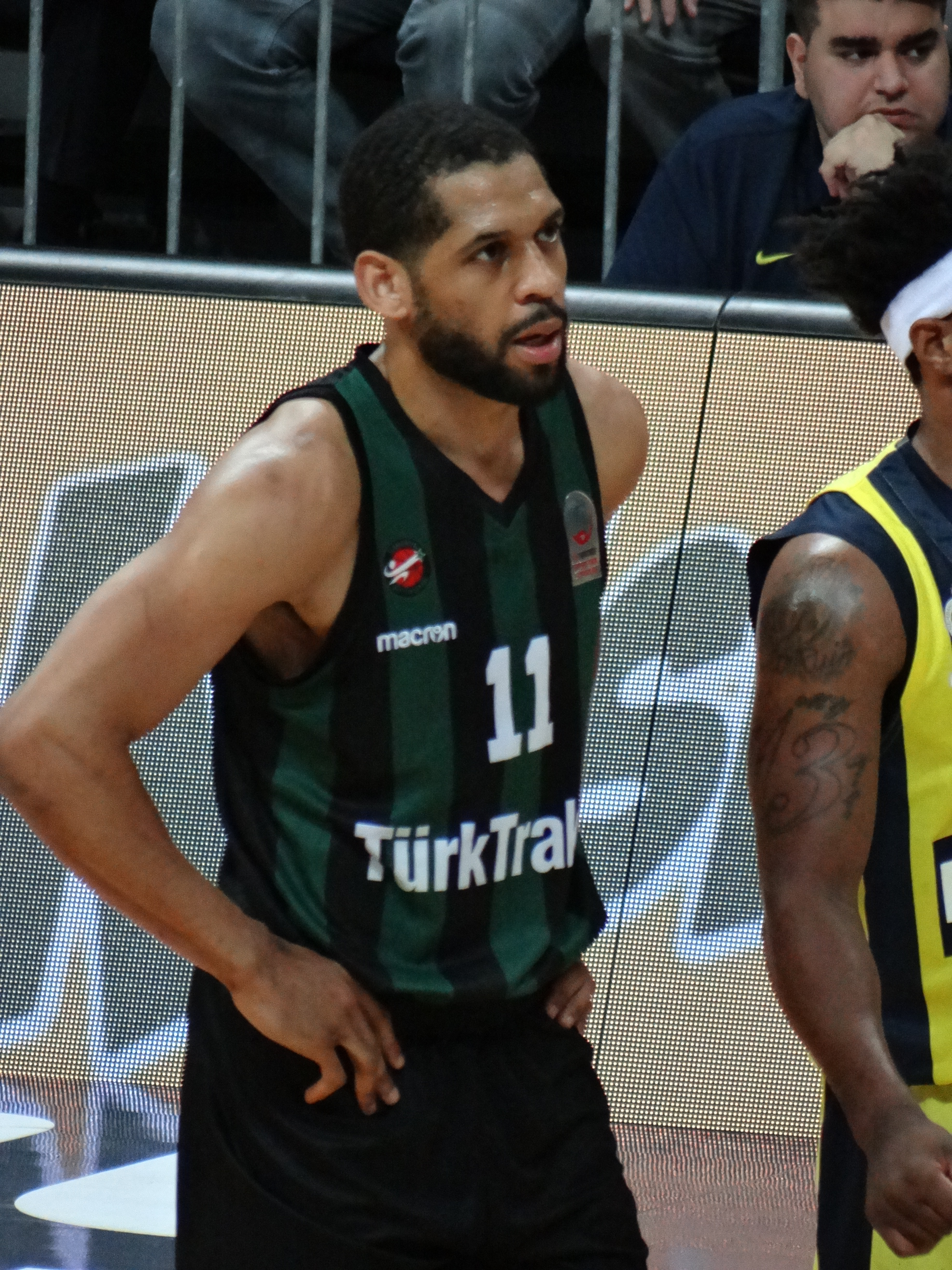 Calvin Dorsey Harris Jr. 11 Sakarya Büyükşehir Belediyespor 20180107